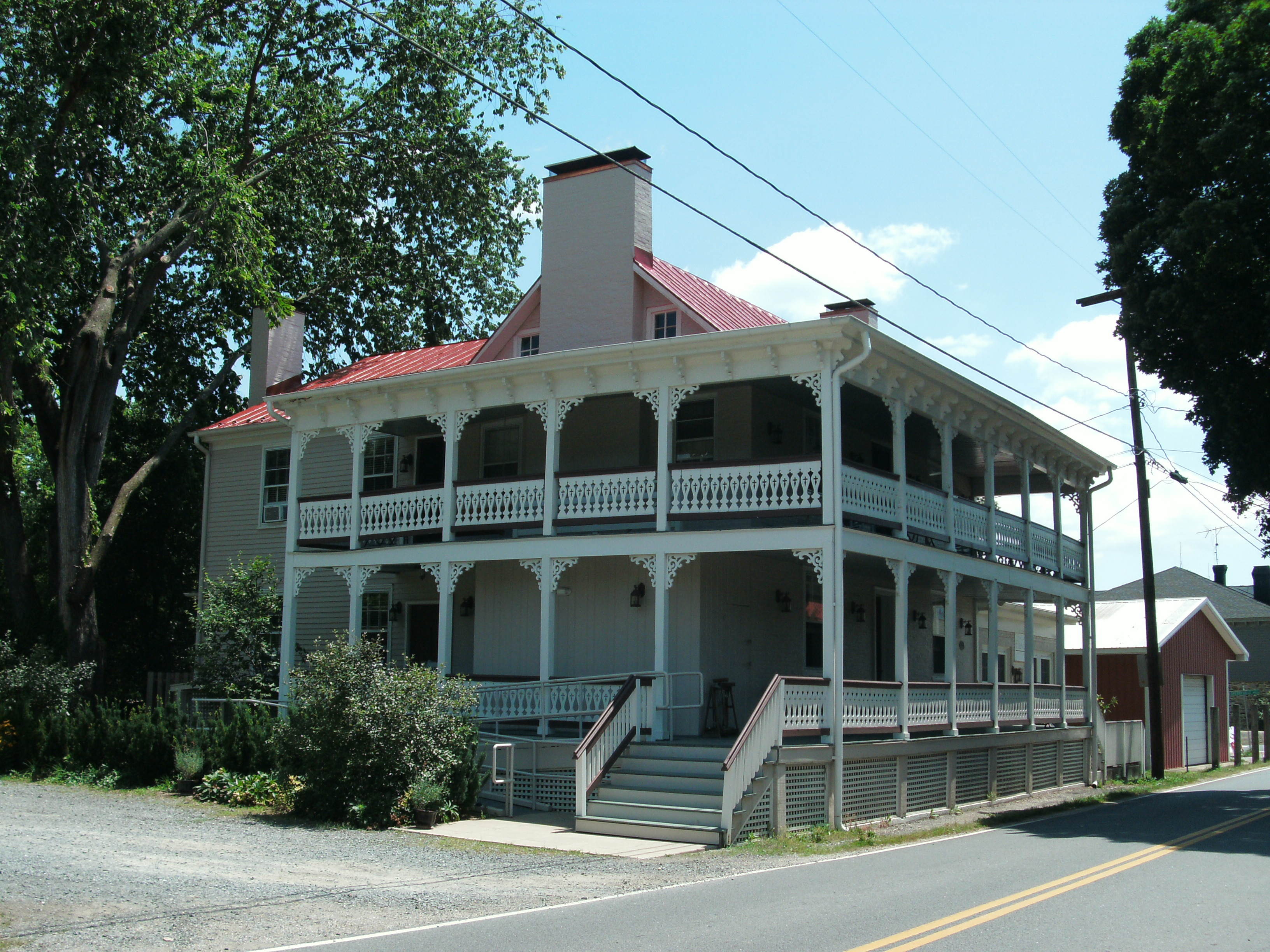 Image I took for Wikipedia